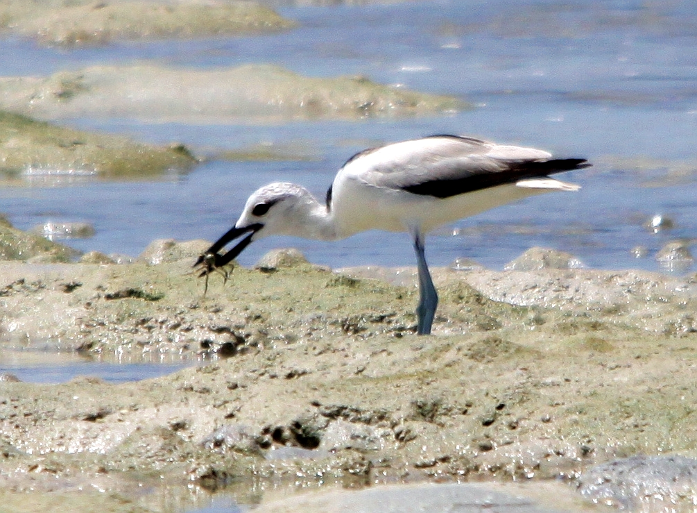 Dromas ardeola, Kenya.